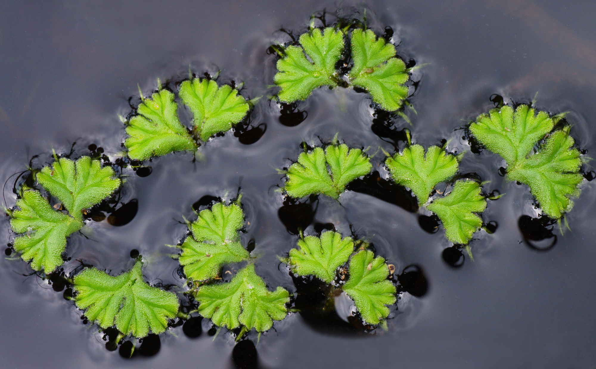 Close-up of the floating liverwort species Ricciocarpos natans.